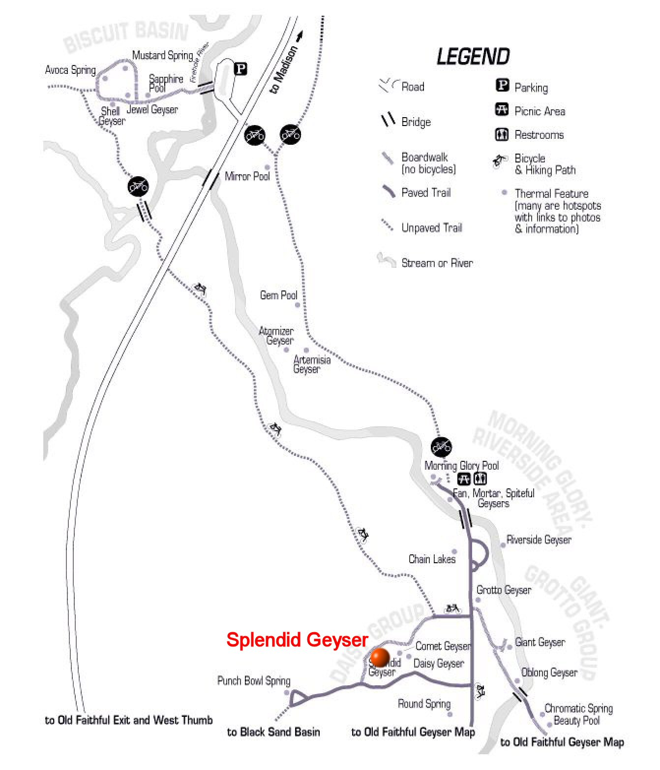 Map of northern section of Upper Geyser Basin with Splendid Geyser annotated